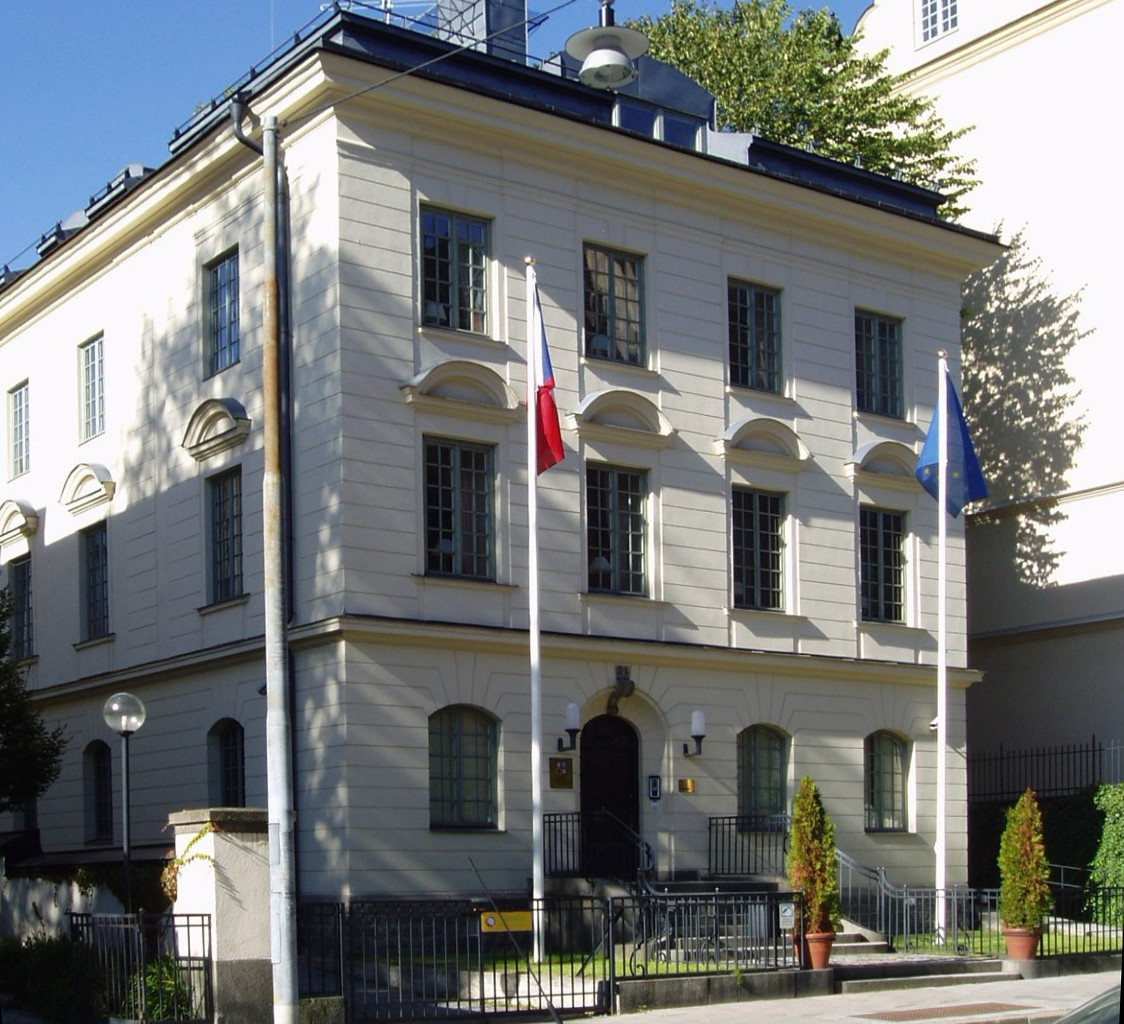 Embassy of Czech Republic in Sweden